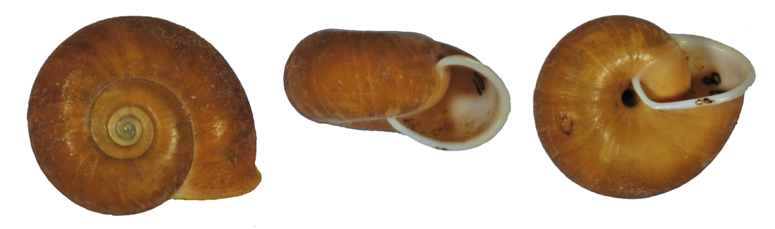 apical, apertural and umbilical view of the shell of the holotype of Chloritis talabensis. From Staatliche Naturhistorische Sammlungen Dresden, Museum für Tierkunde, Dresden, Germany, number 10198. The width of the shell is 24 mm.